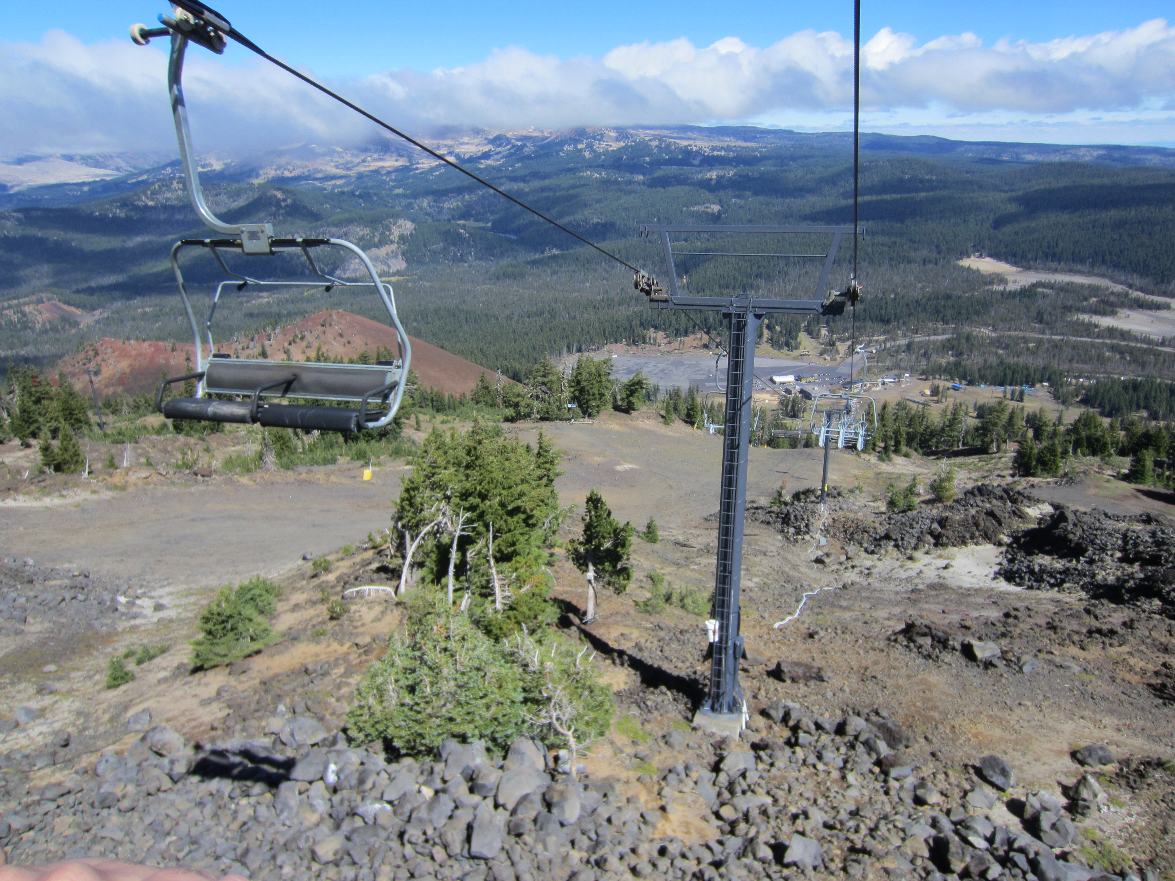 Mt. Bachelor Ski Resort, Oregon (2014)